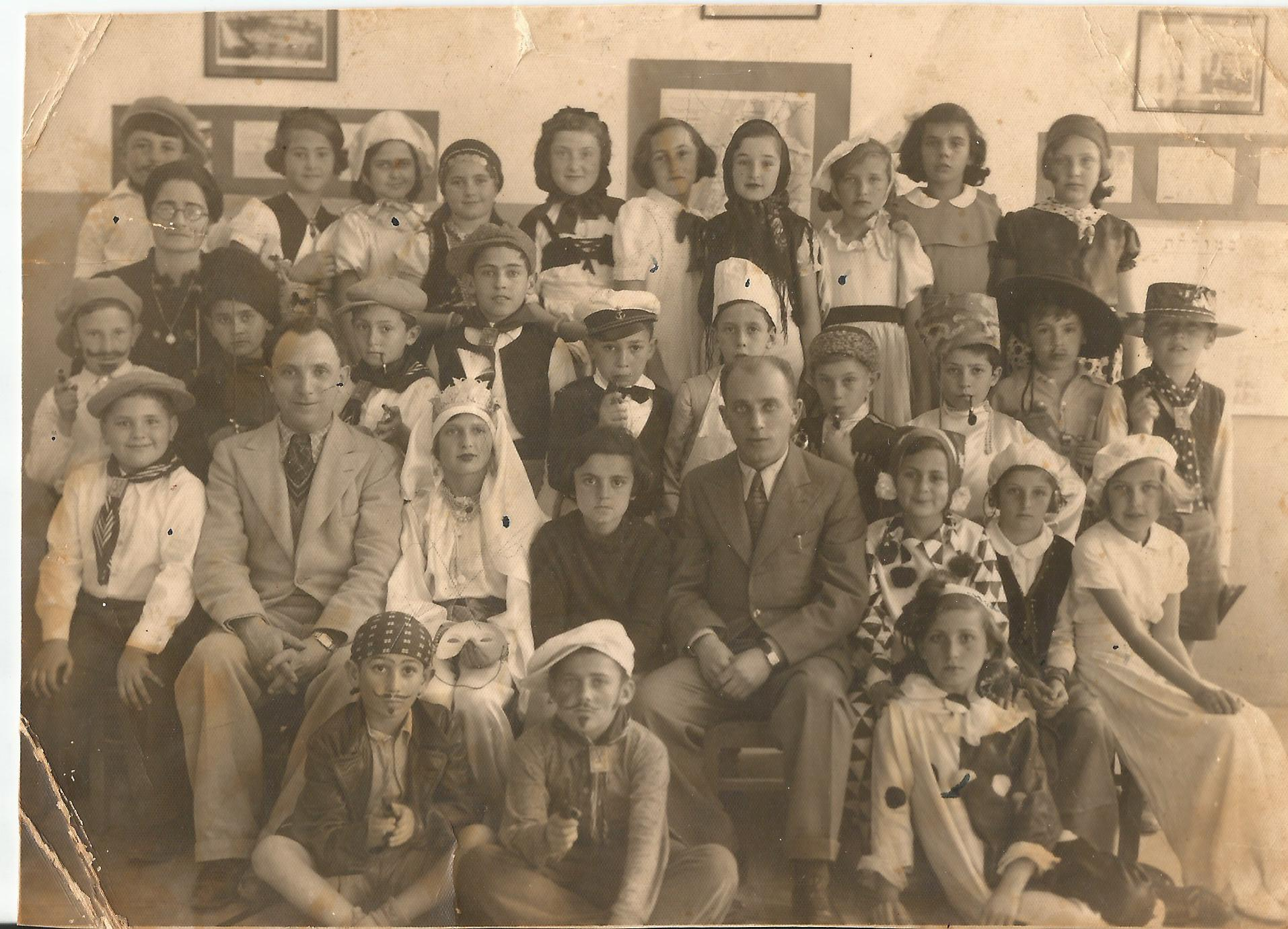 Purim in Tel Aviv, 1937